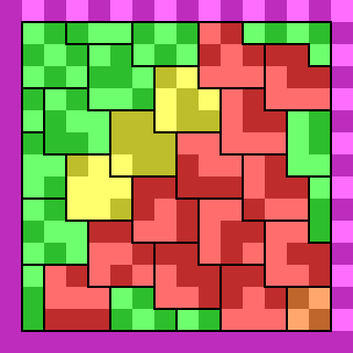 Data Matrix code for 'Wikipedia', coloured to show data (green), padding (yellow), error correction (red), synchronisation (magenta) and unused (orange).